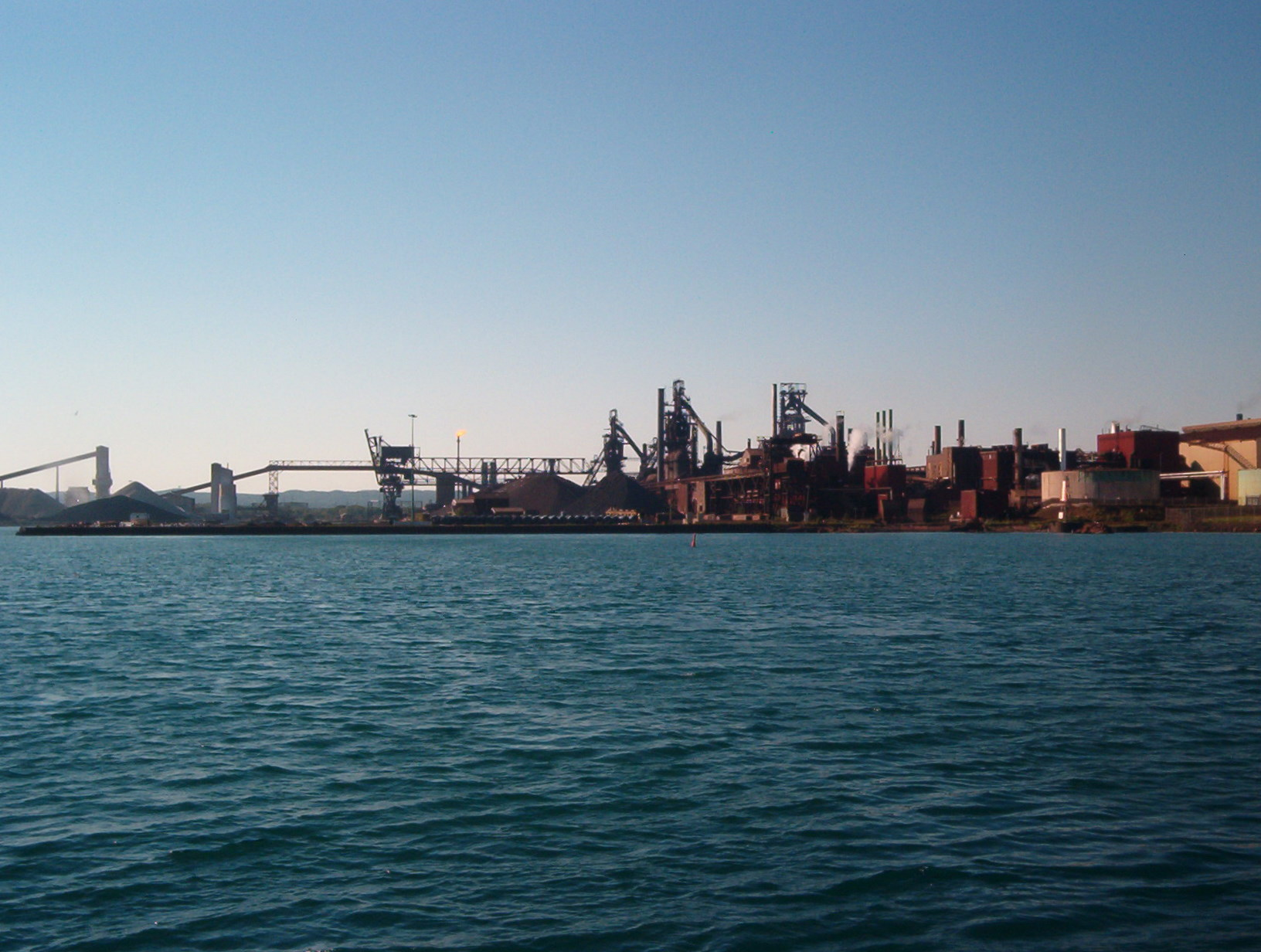 Algoma Steel and slag photo taken from North Ste. Mary's Island, west jetty Sault Ste. Marie, Ontario, Canada 3 August, 2006.